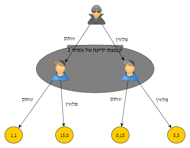 game theory- information set - prisoners dilema in exstensive form . hebrew subtitles